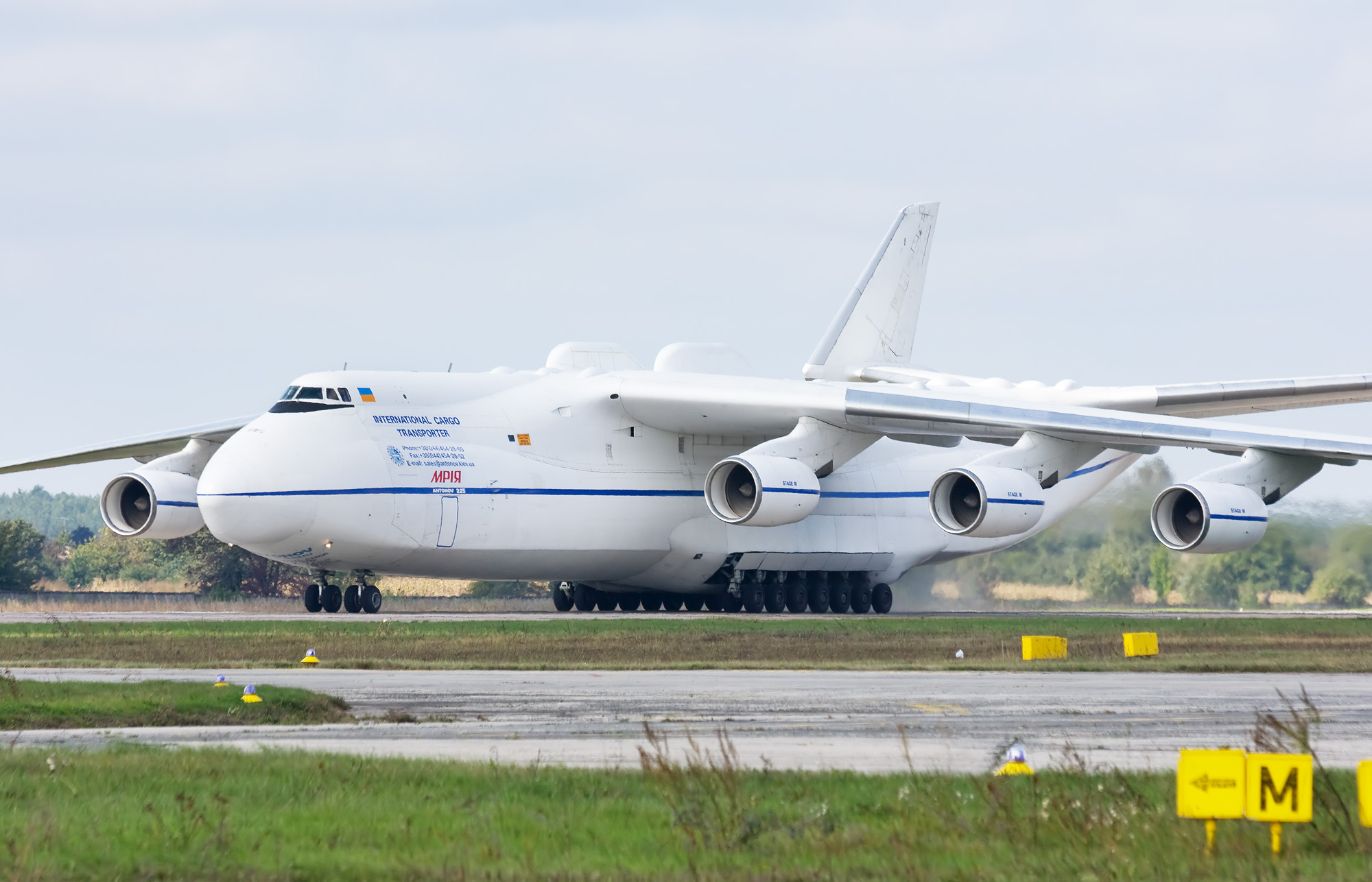 An-225 Mriya